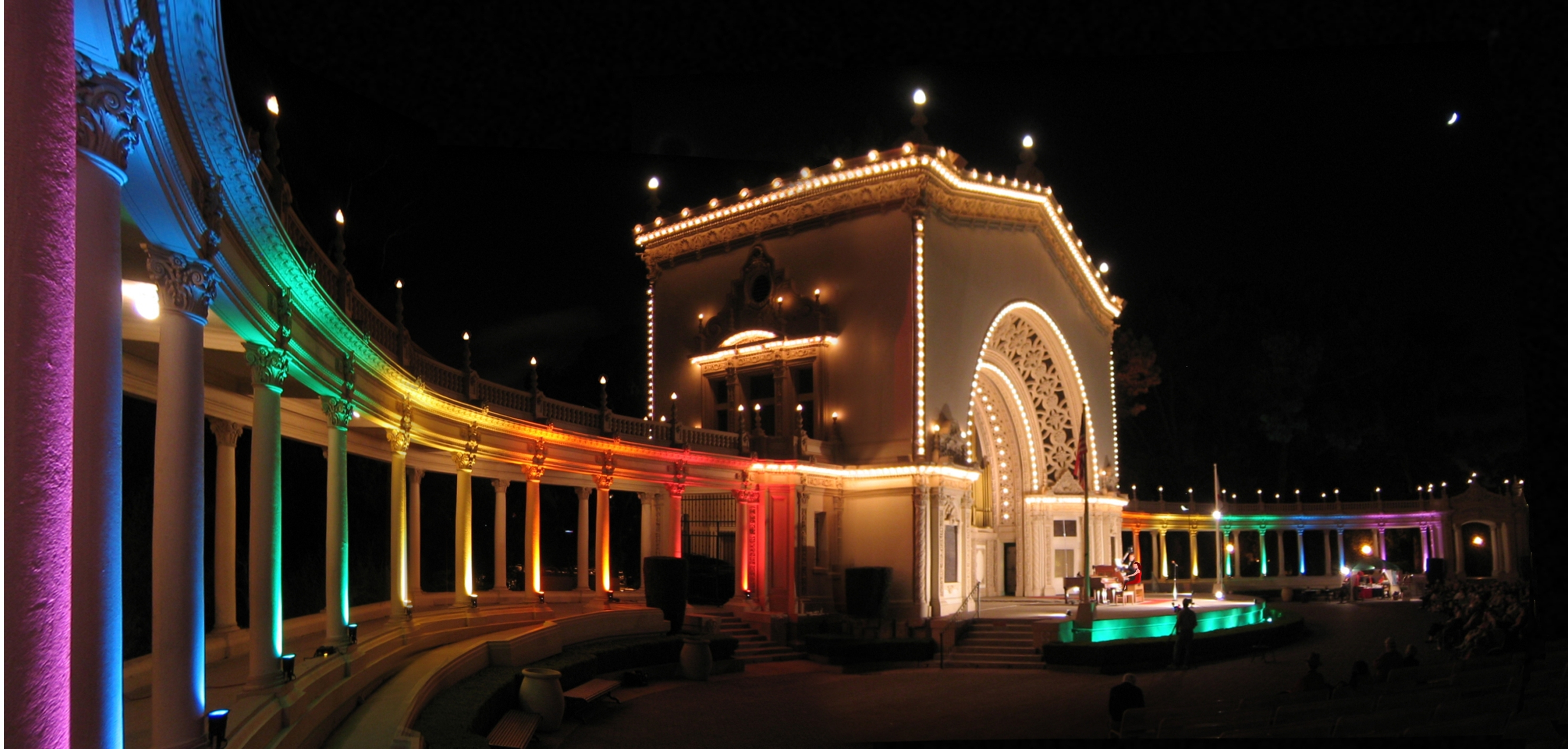 Spreckels Organ Society's Summer Organ Festival at the Organ Pavilion San Diego